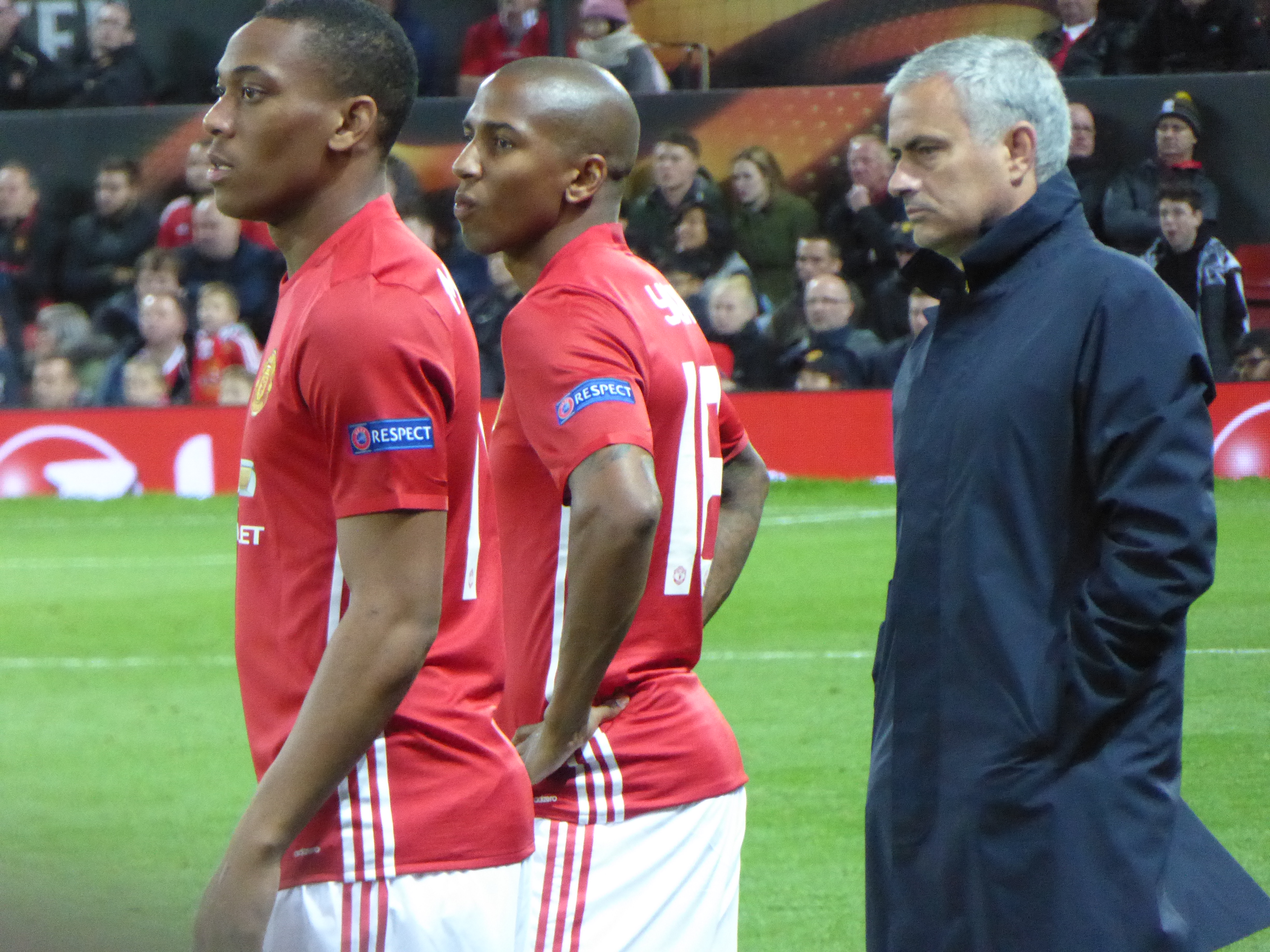 Manchester United v Zorya Luhansk (1-0), Europa League, Old Trafford, Manchester, Greater Manchester, England, September 2016